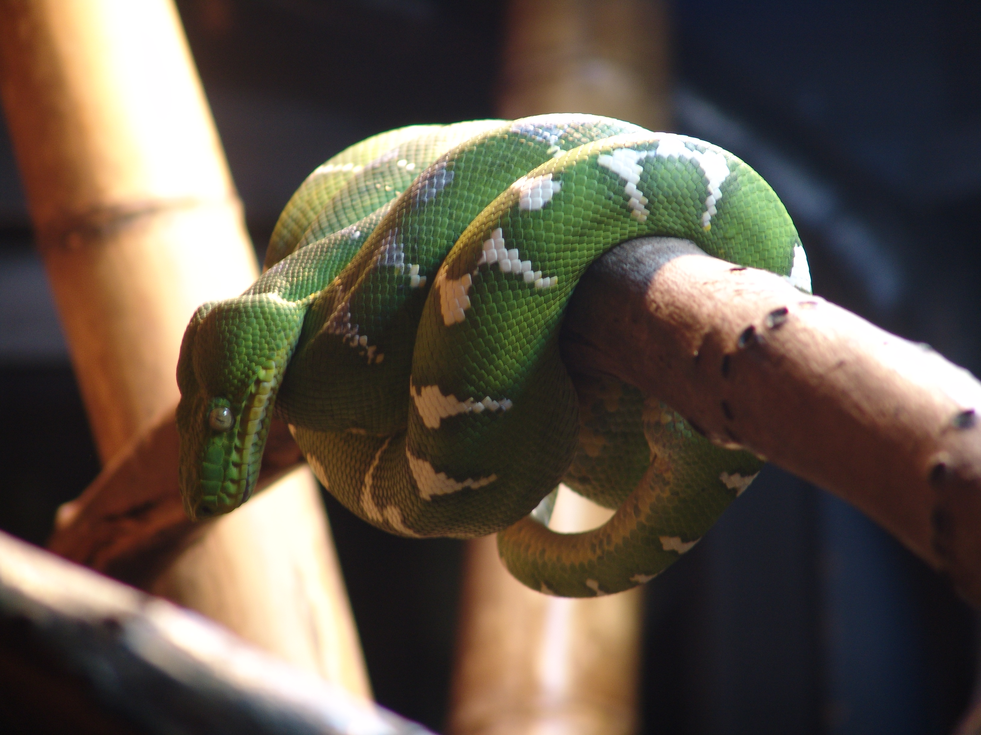 Emerald Tree Boa at Wilmington's Serpentarium. I took the picture